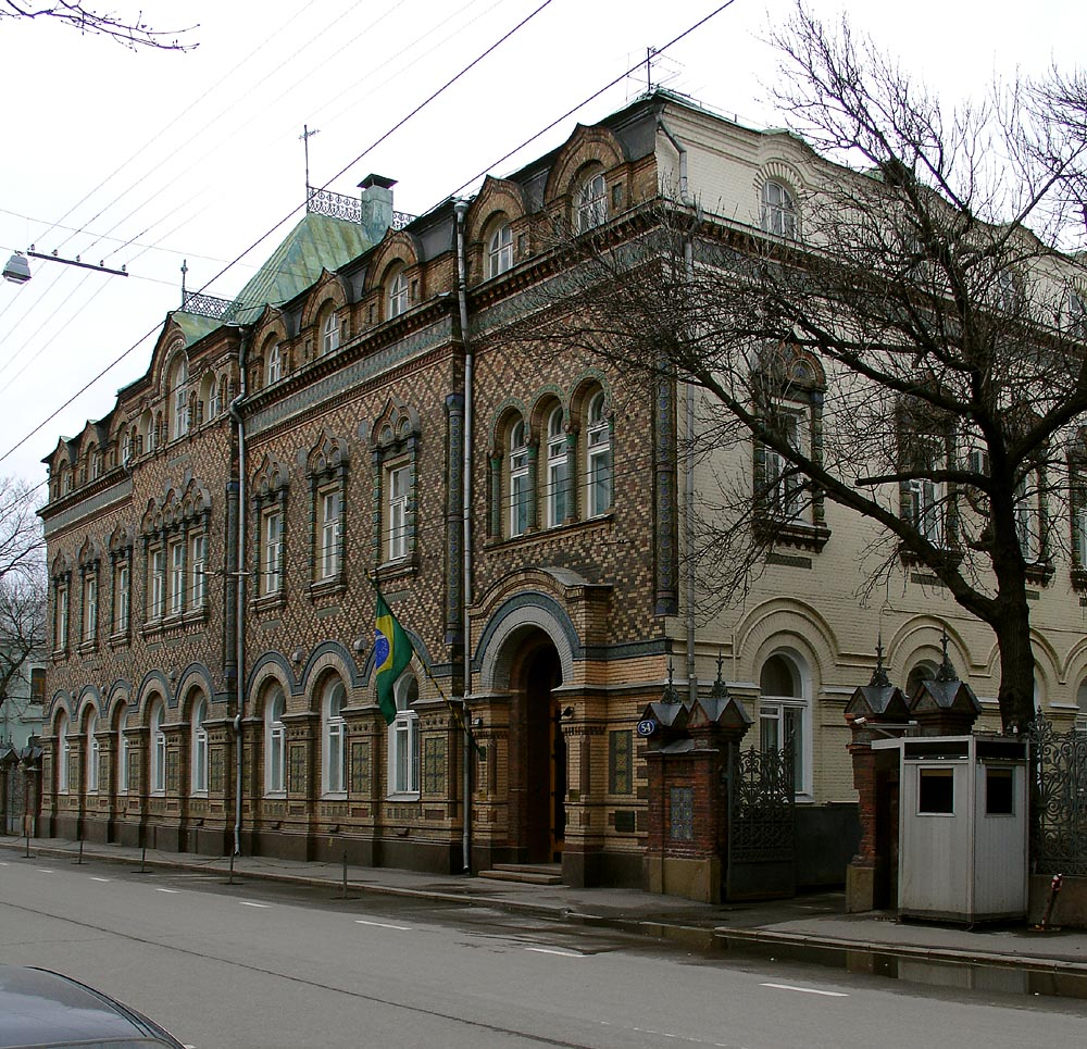 Embassy of Brazil in Moscow. Former Lopatina House by Alexander Kaminsky, 54 Bolshaya Nikitskaya Street